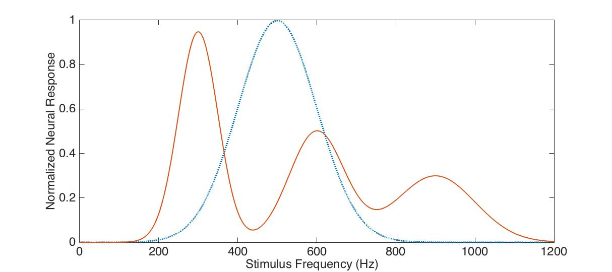 multipeaked neuron - schematic of Kadia and Wang 2003's findings